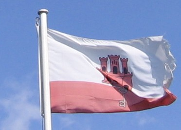 Gibraltar flag in nature - as it is on the top of Upper Rock